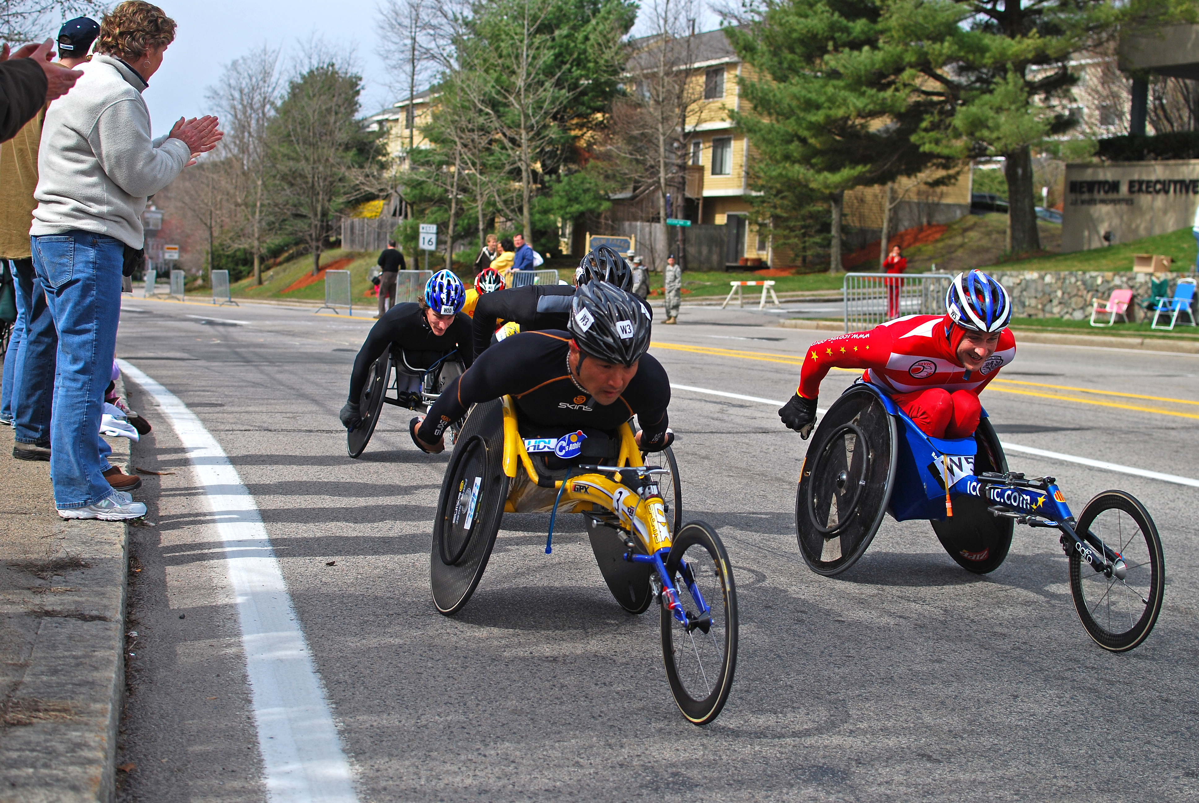 Boston Marathon 2009 at the halfway point coming up to the intersection of Route 16 and 128. At center is Masazumi Soejima of Japan, at left in the blue helmet is Joshua George of the United States, and at right in the red suit is Roger Puigbo Verdaguer Sr. of Spain.